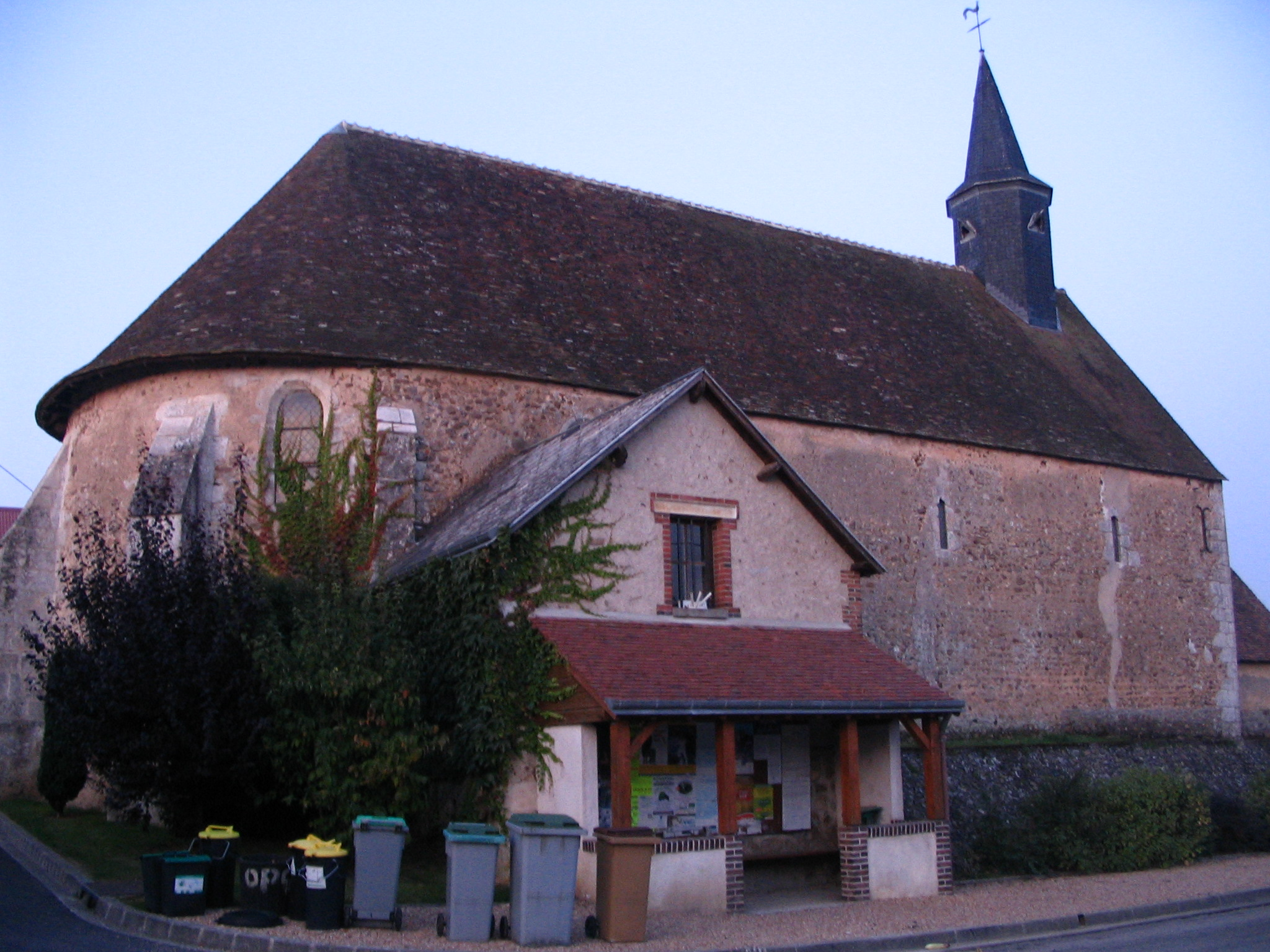 The church of Trizay-lès-Bonneval, Eure-et-Loir, France.